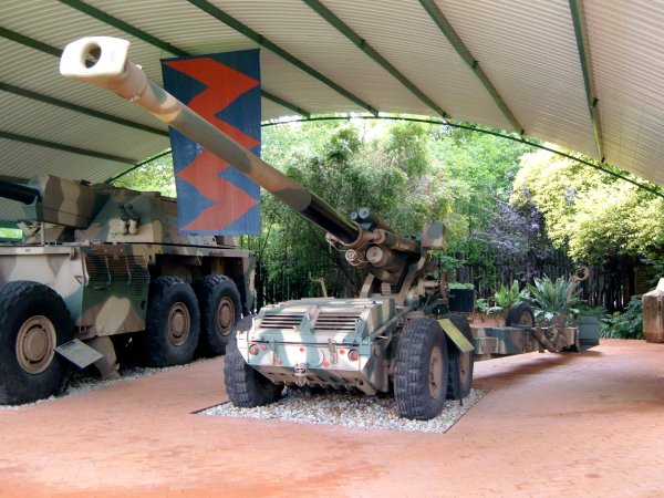 South African Denel G5 howitzer